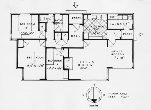 Floor plan of a New Zealand state house from the 1930s, as built by the First Labour Government.